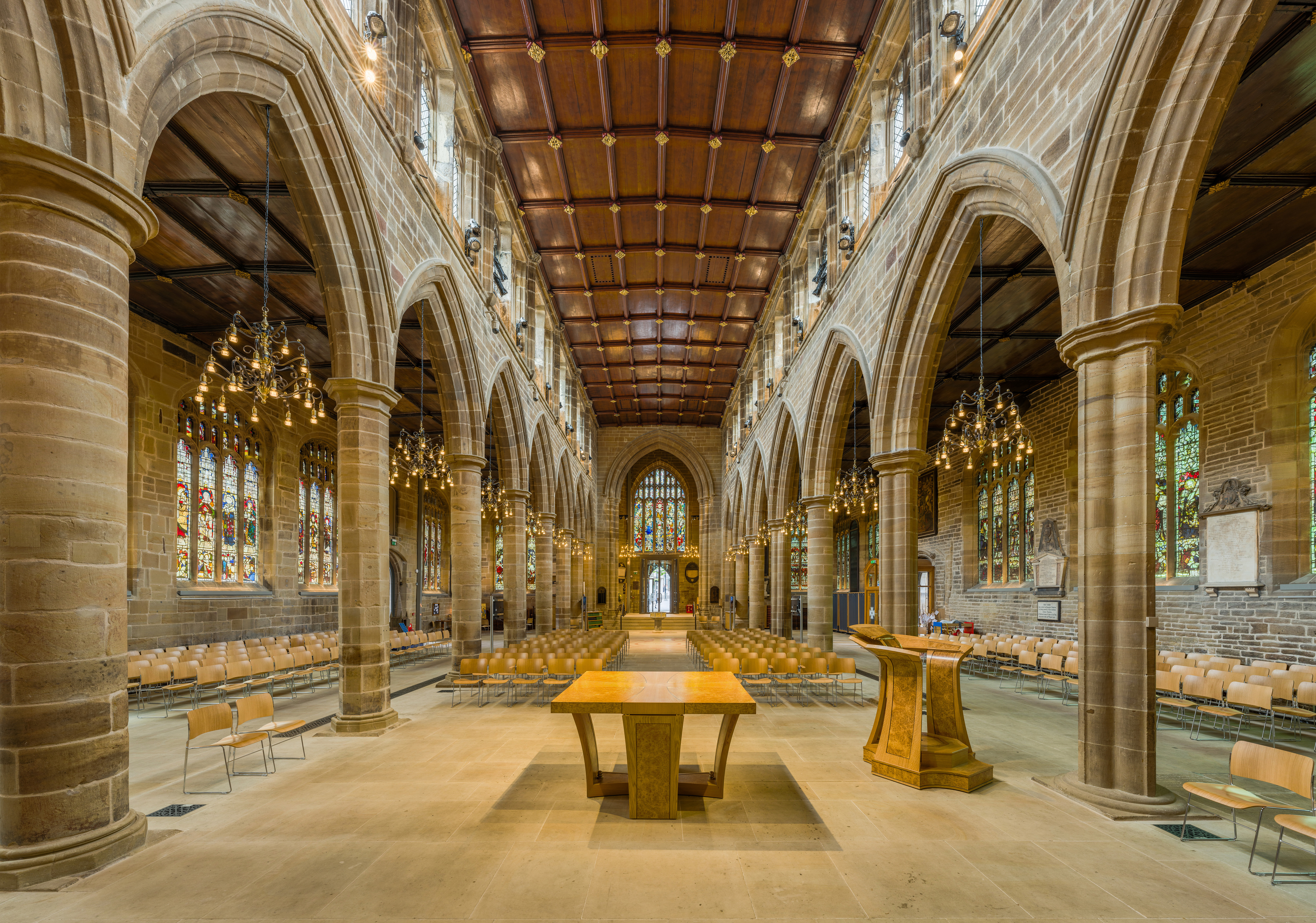 The nave of Wakefield Cathedral looking west in West Yorkshire, England.